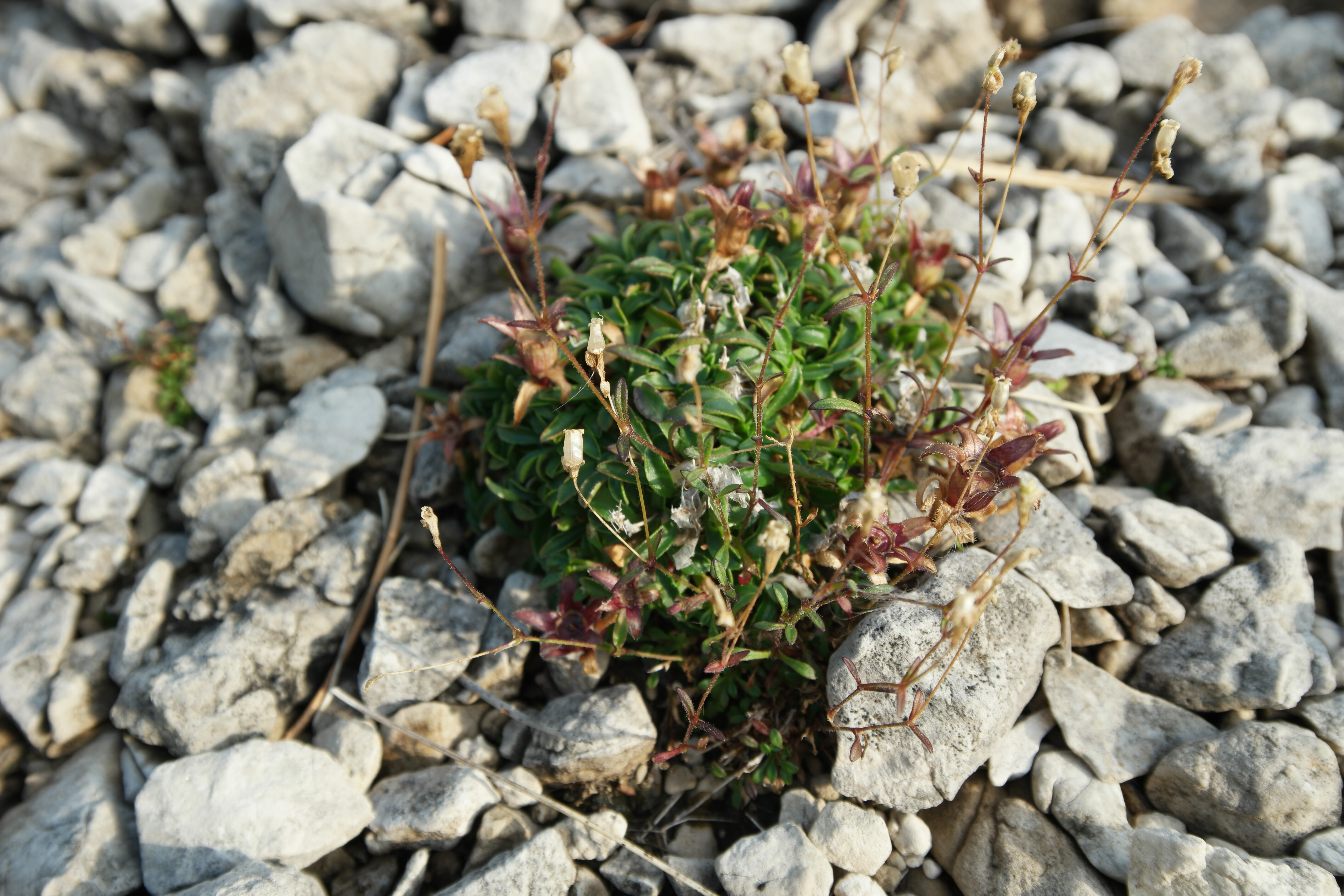 Edraianthus serpyllifolius and Heliosperma monachorum